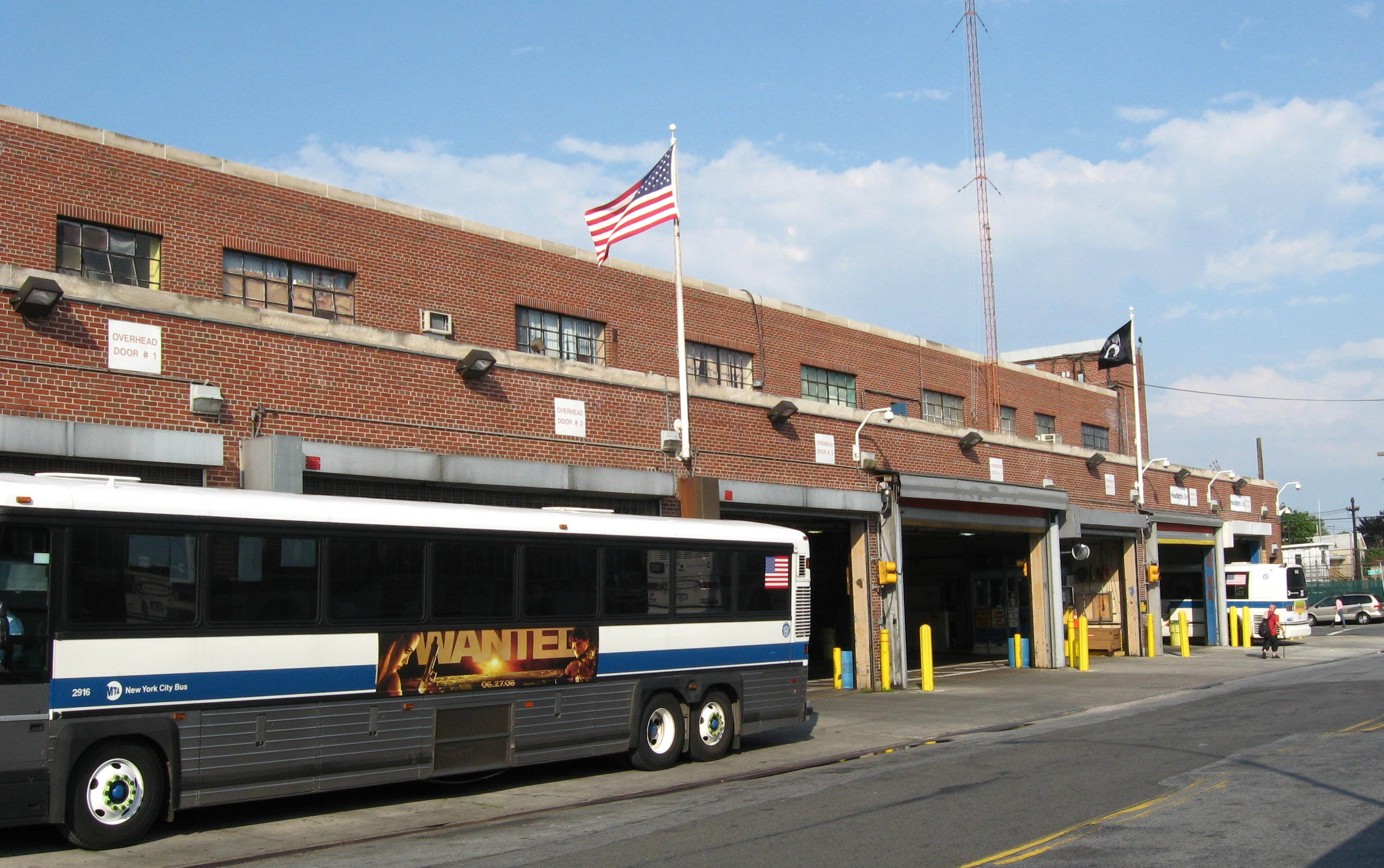 Looking east on a sunny late afternoon at Ulmer Park Depot